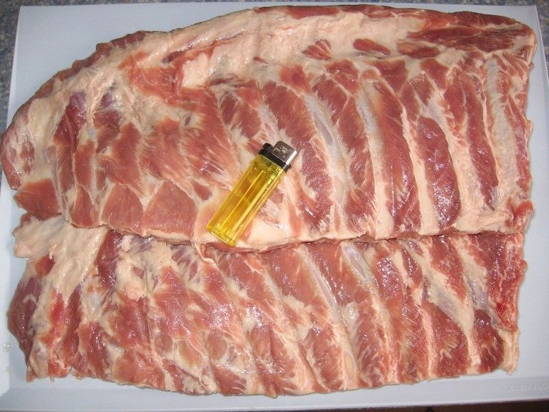 Spareribs in comparison to a lighter